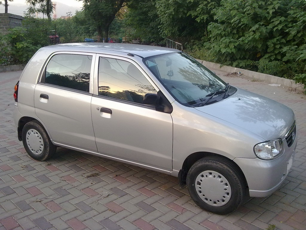 Suzuki Alto VXR, Pakistan.